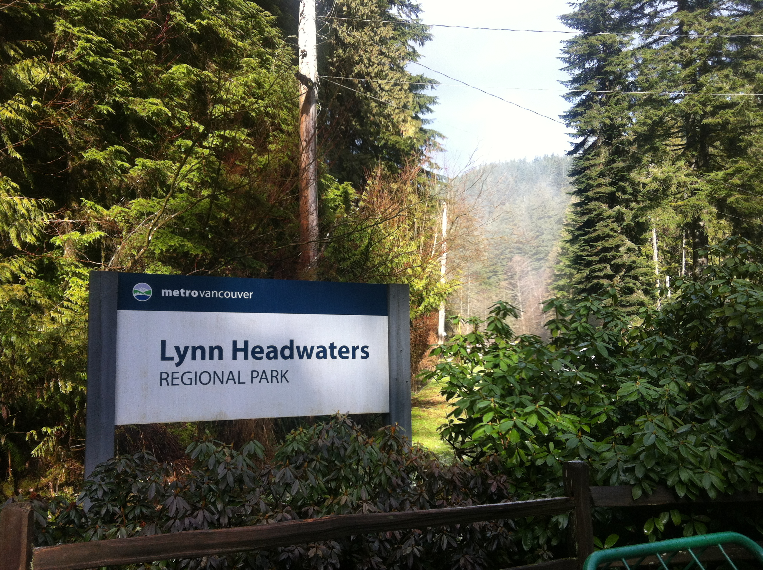 sign of Lynn Waters park